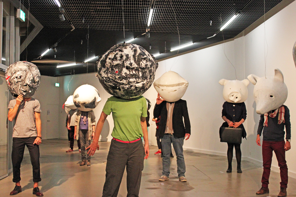 Nina Staehli Head Download Kunsthalle Luzern Shooting